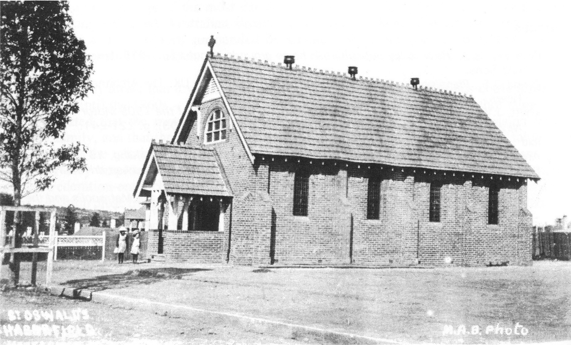 St Oswald's Haberfield, School Church. In 1912 significant additions were made to the south-western end of the building (right side). Much of the fabric of the original building survives.